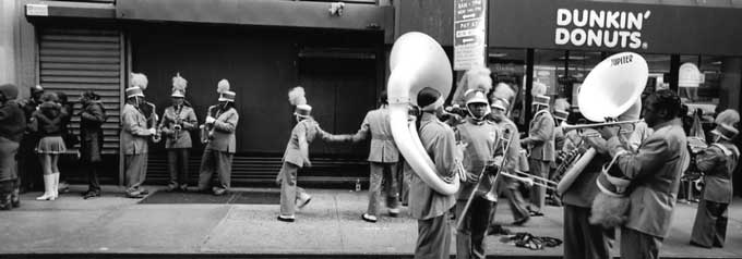 Jules Allen Photograph: Marching Bands 2006